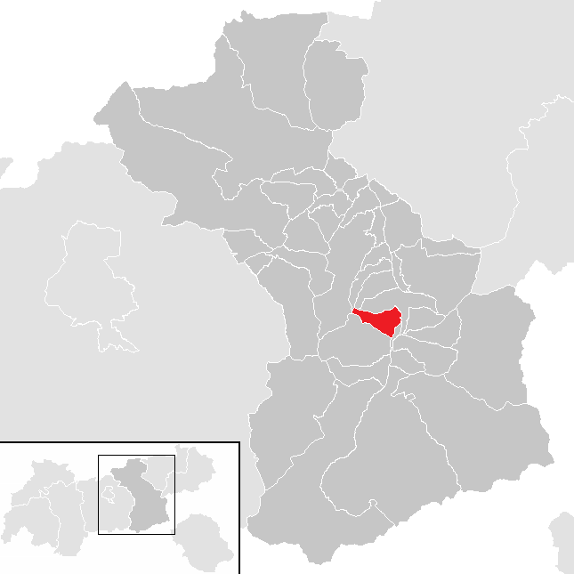 District Schwaz